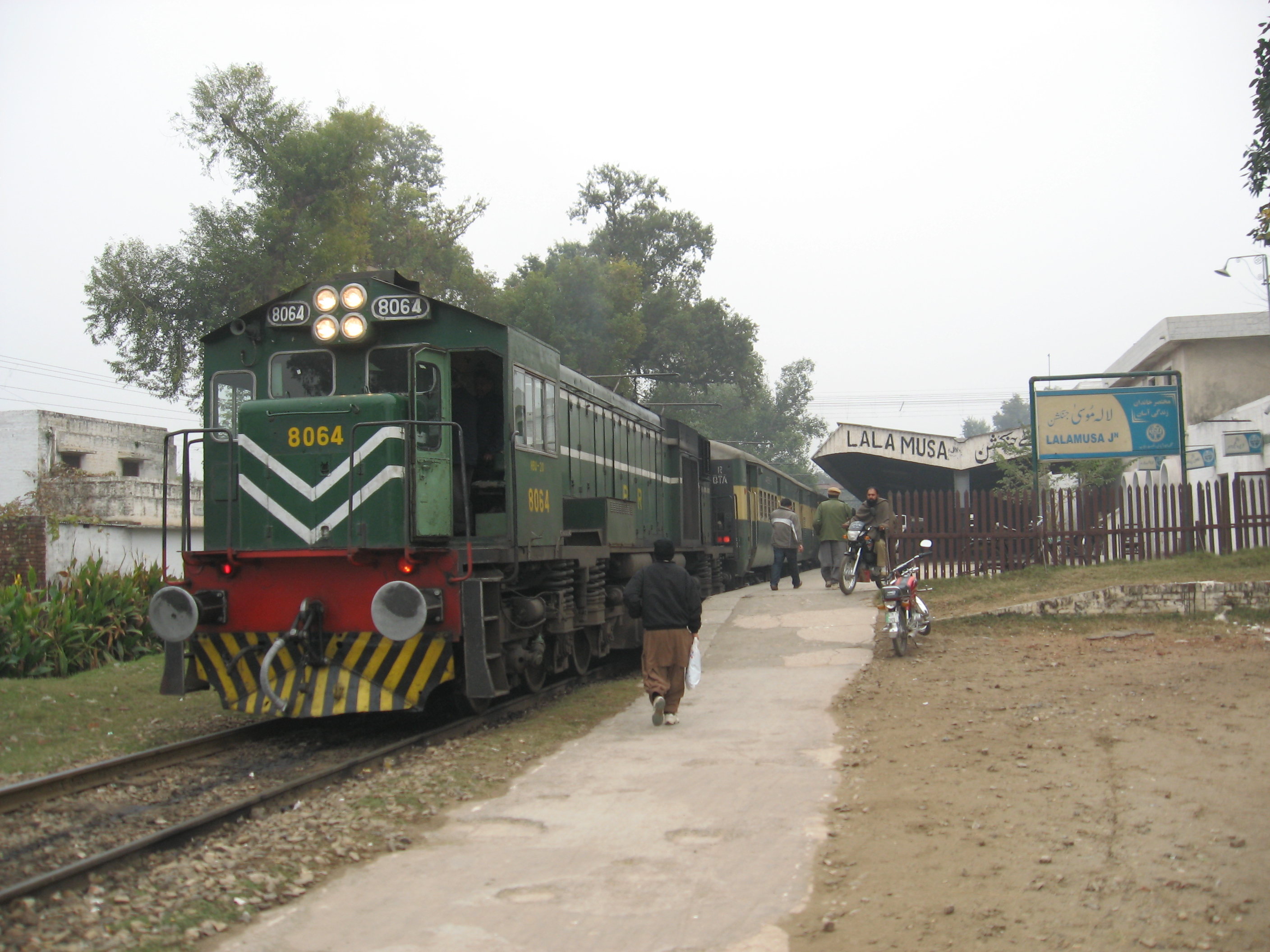 Subak Raftar Express at Lalamusa Junction railway station.